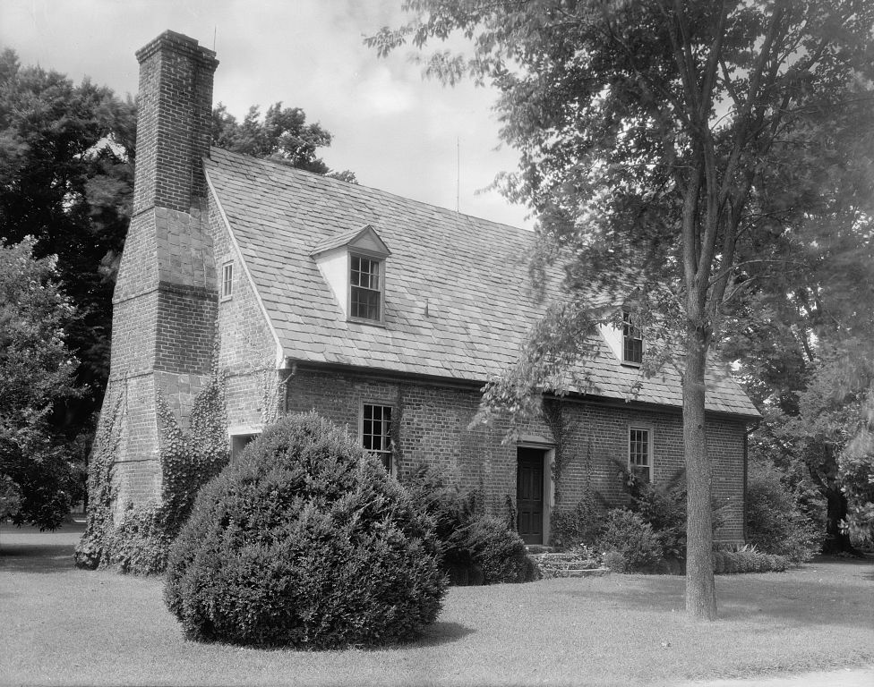 Exterior view of the Adam Thoroughgood House, Norfolk vicinity, Princess Anne County, Virginia, black-and-white 8 x 10 negative, by the American photographer Frances Benjamin Johnston. Dated 1930-1939. Ms. Johnston donated her archives in perpetuity to the Library of Congress, hence there are no restrictions on publication, as per the Library's website. Image courtesy of the Library of Congress Prints and Photographs Division, Library of Congress, Washington, D.C.